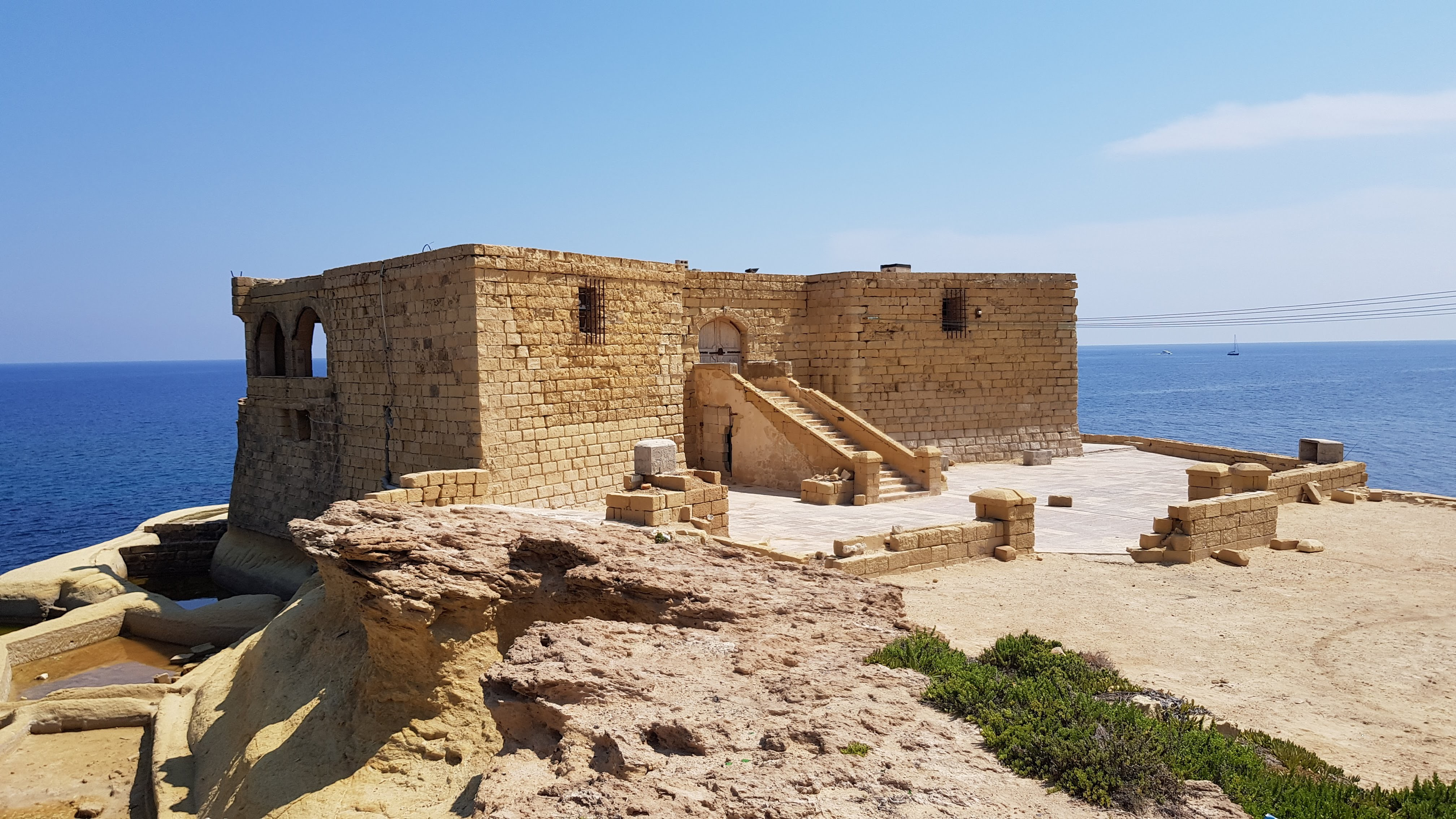 Qolla l-Bajda Battery in Żebbuġ, Gozo This media is about Maltese cultural property with inventory number 1417.